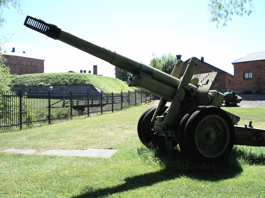 Soviet 152mm mm ML-20 gun-howitzer, displayed in Hämeenlinna Artillery Museum. Photo taken on June 18, 2006. Source: Photo by me, User:Balcer.